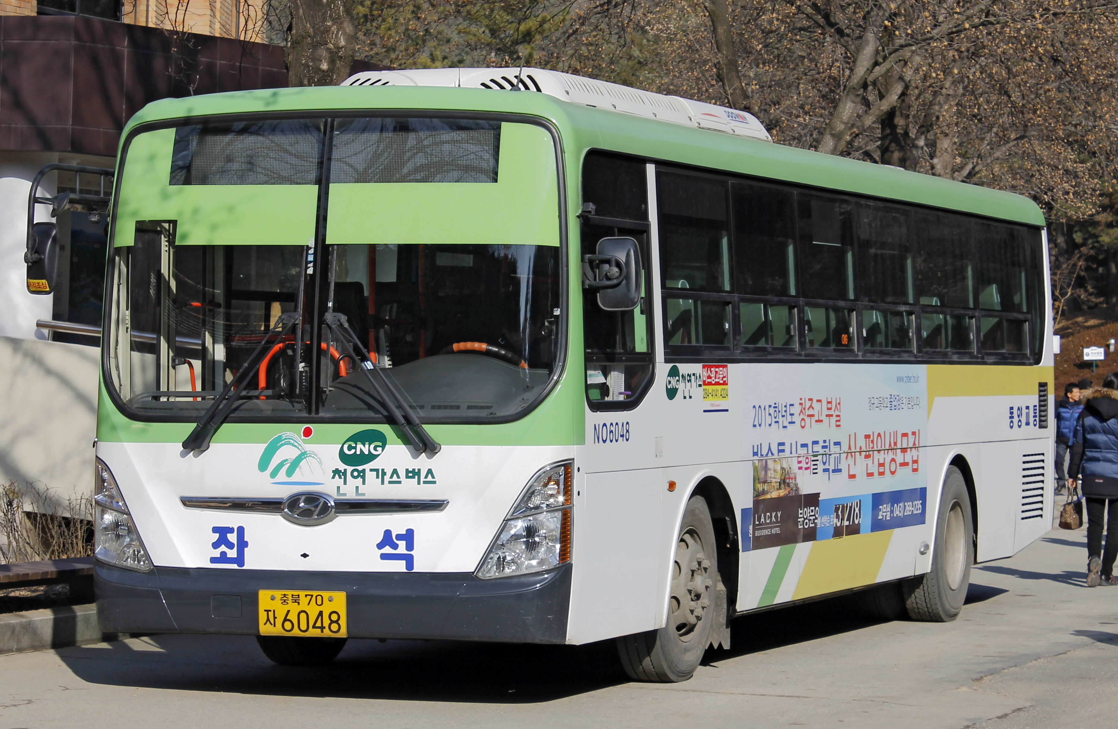 Hyundai New Super Aero City Motorcoach